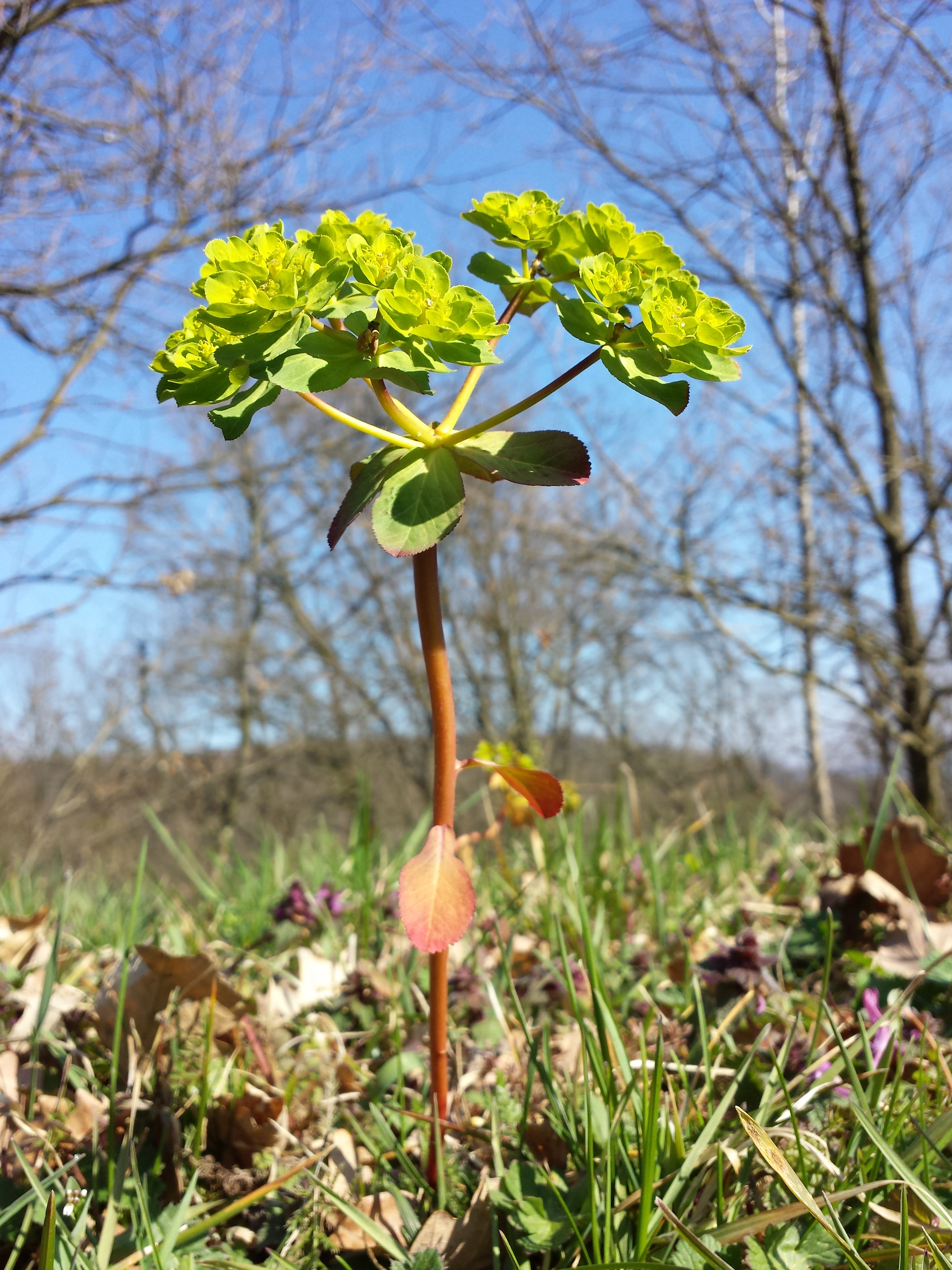 Habitus Taxonym: Euphorbia helioscopia ss Fischer et al. EfÖLS 2008 ISBN 978-3-85474-187-9 Location: Schanzberg near Thunau, district Horn, Lower Austria - ca. 350 m a.s.l. Habitat: meadows/archaeological excavation